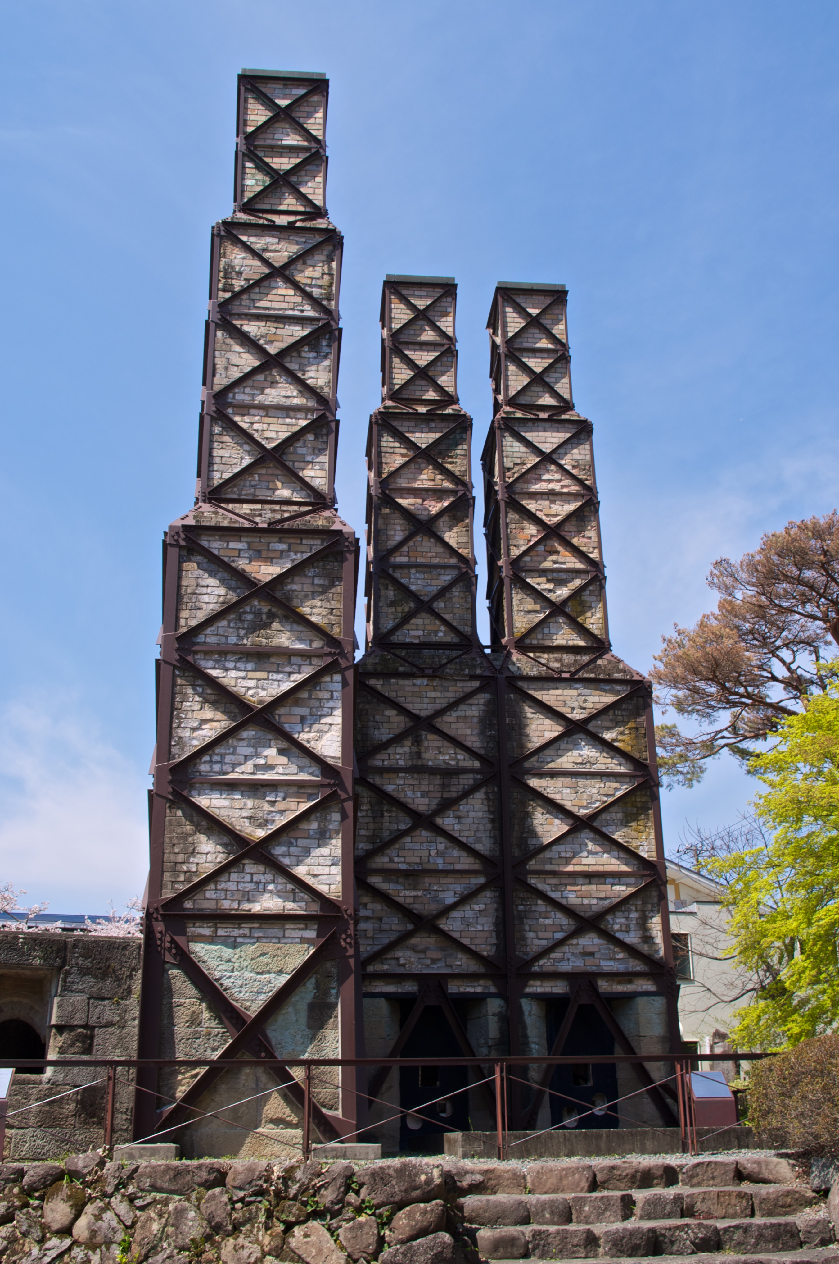 Nirayama reverberatory furnace